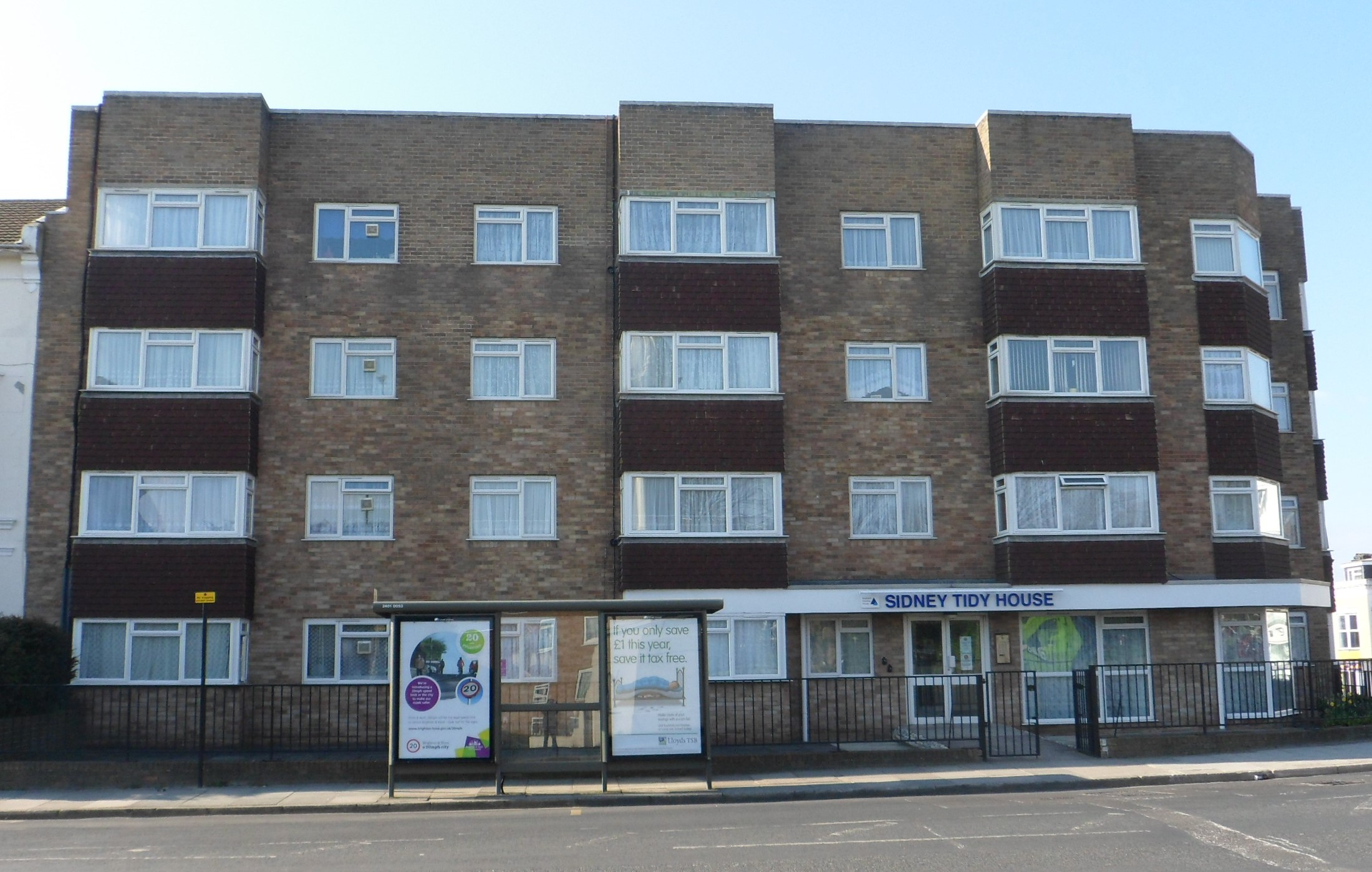 Sidney Tidy House, junction of Queen's Park Road (foreground) and Southover Street, Queen's Park, City of Brighton and Hove, England. A block of 1970s flats built on the site of St Luke's church hall, which burnt down. The church itself is behind and to the right of where I am standing.